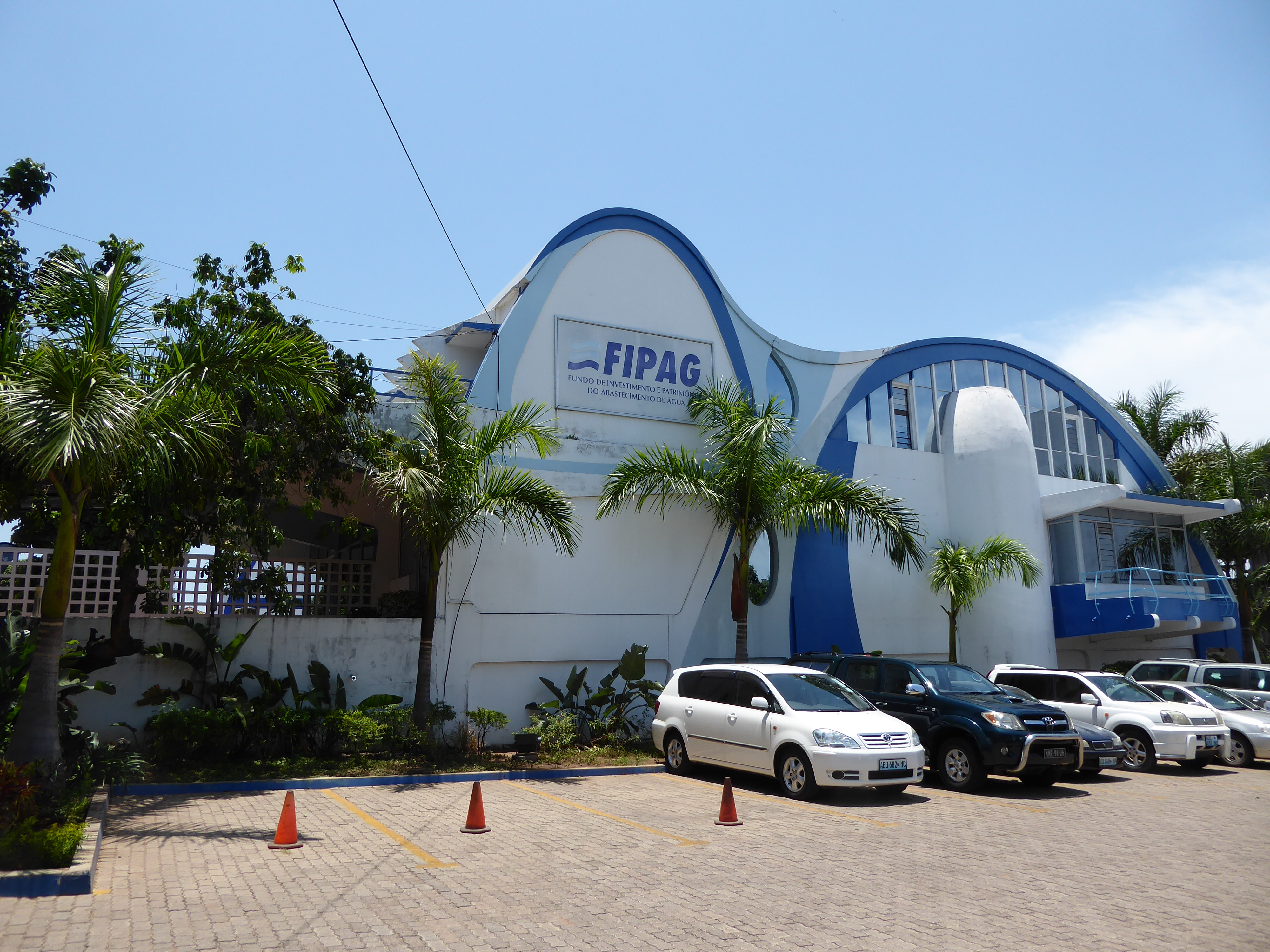 Padaria Saipal building, seat of the FIPAG, Maputo, Mozambique